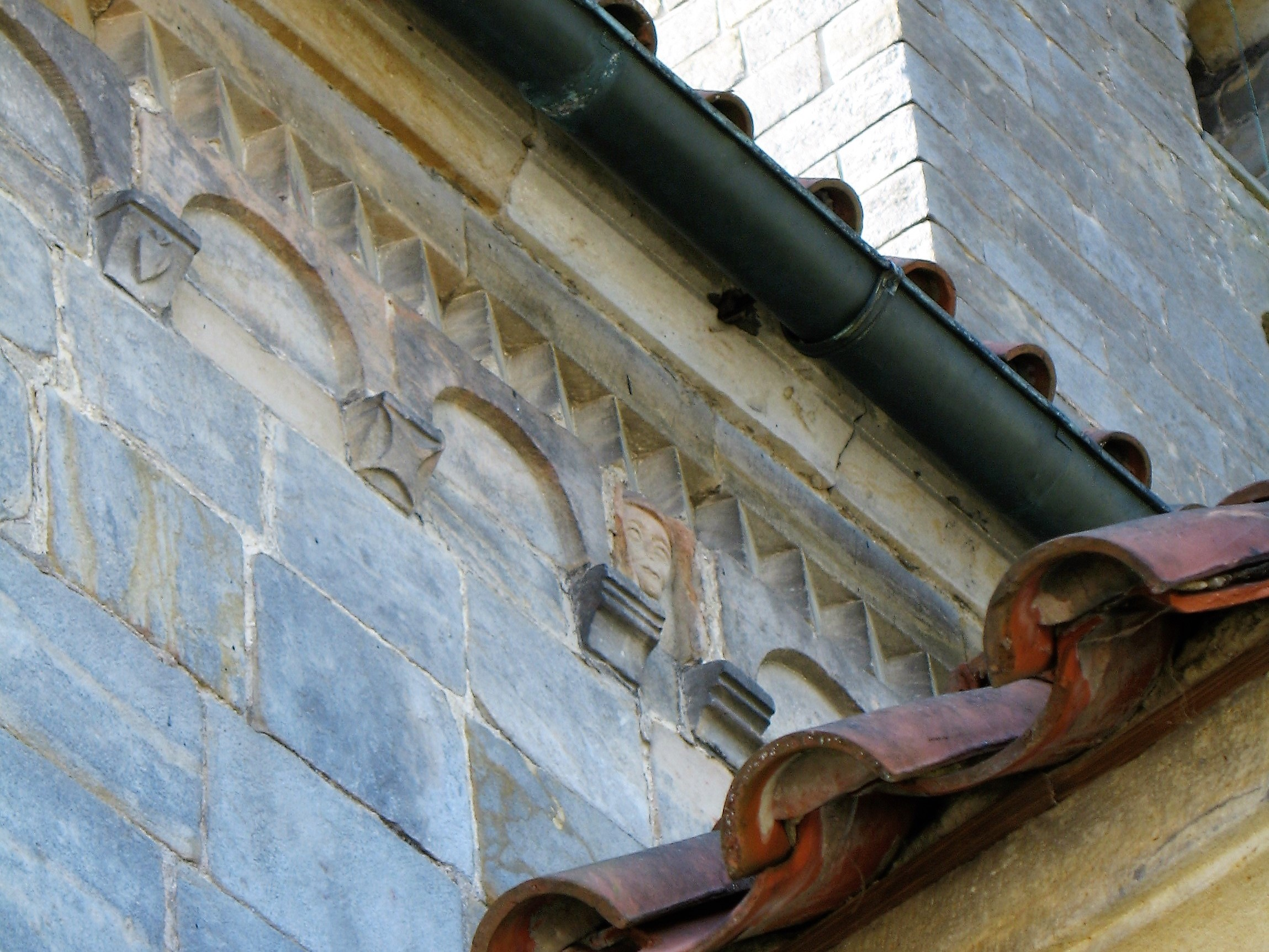 Church of the Assumption of the Virgin Mary in Mohelnice nad Jizerou, cultural monument. Mladá Boleslav District, Czech Republic